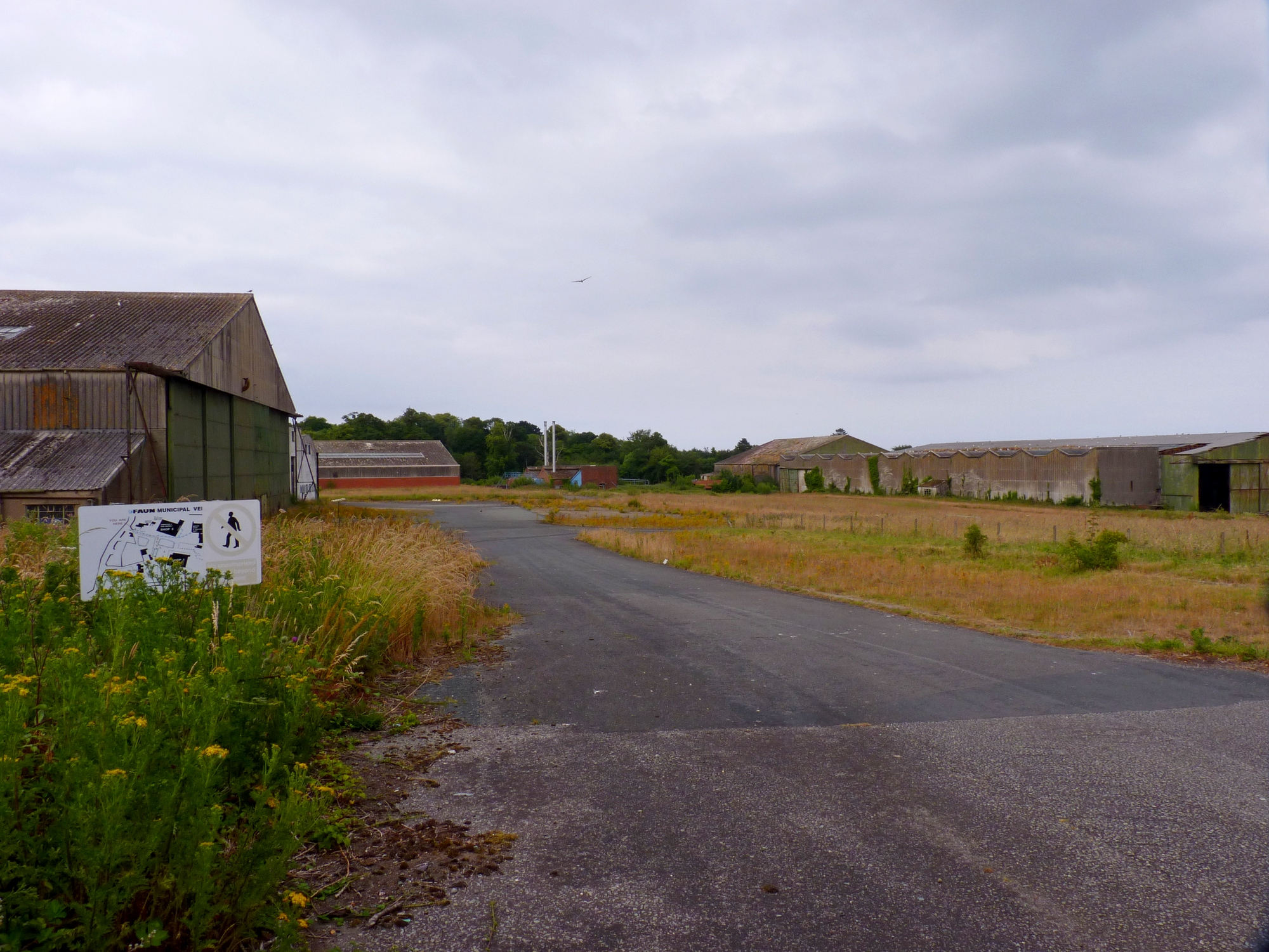 The picture shows the northern end of the site once occupied by the medieval Llanfaes Franciscan friary. In world war II it was an engineering plant, run by Saunders Roe, making flying boats, which could then be launched on the nearby Menai Straits.